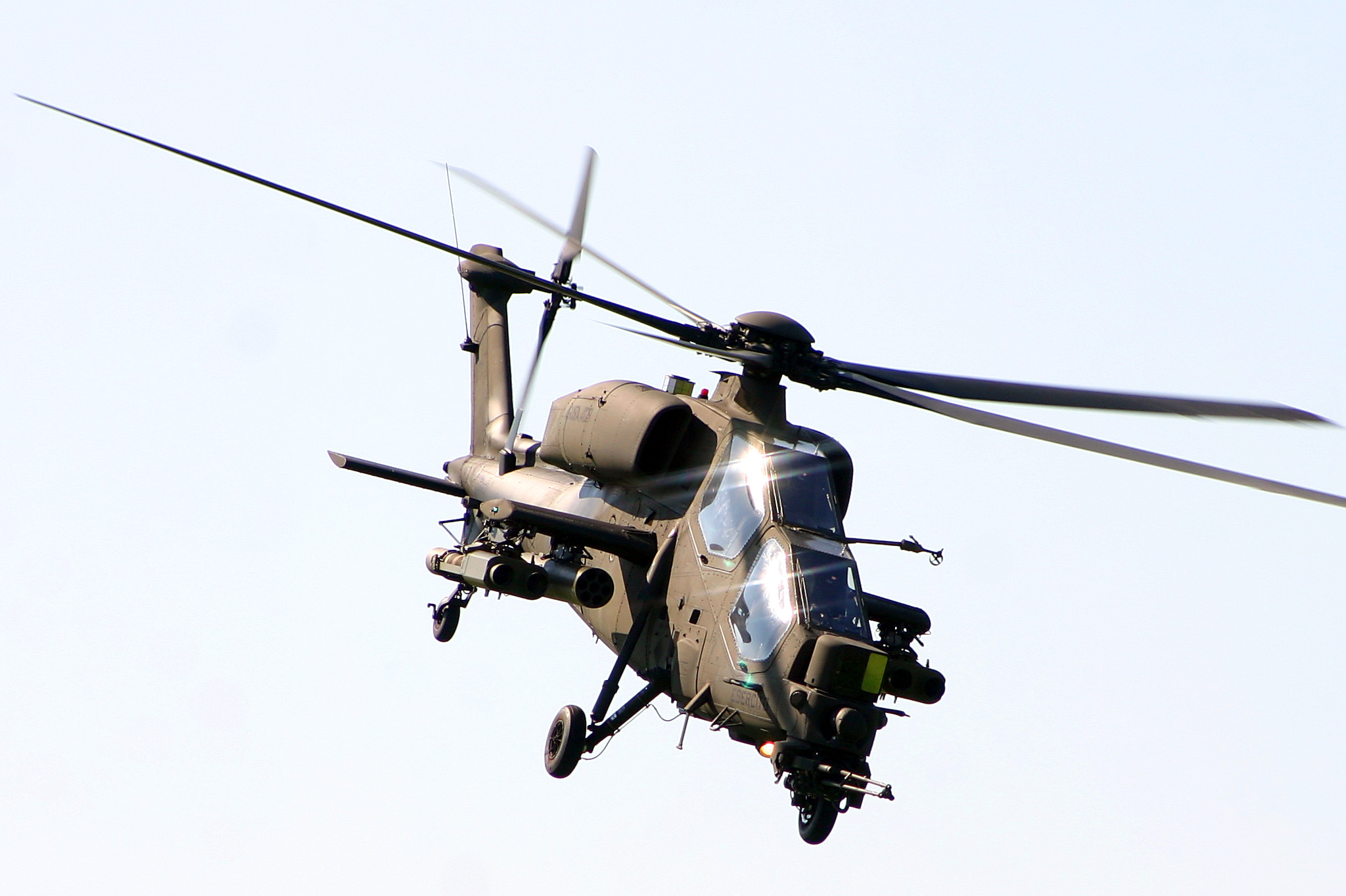 Agusta A129 Mangusta at Air 04, Payerne, Switzerland